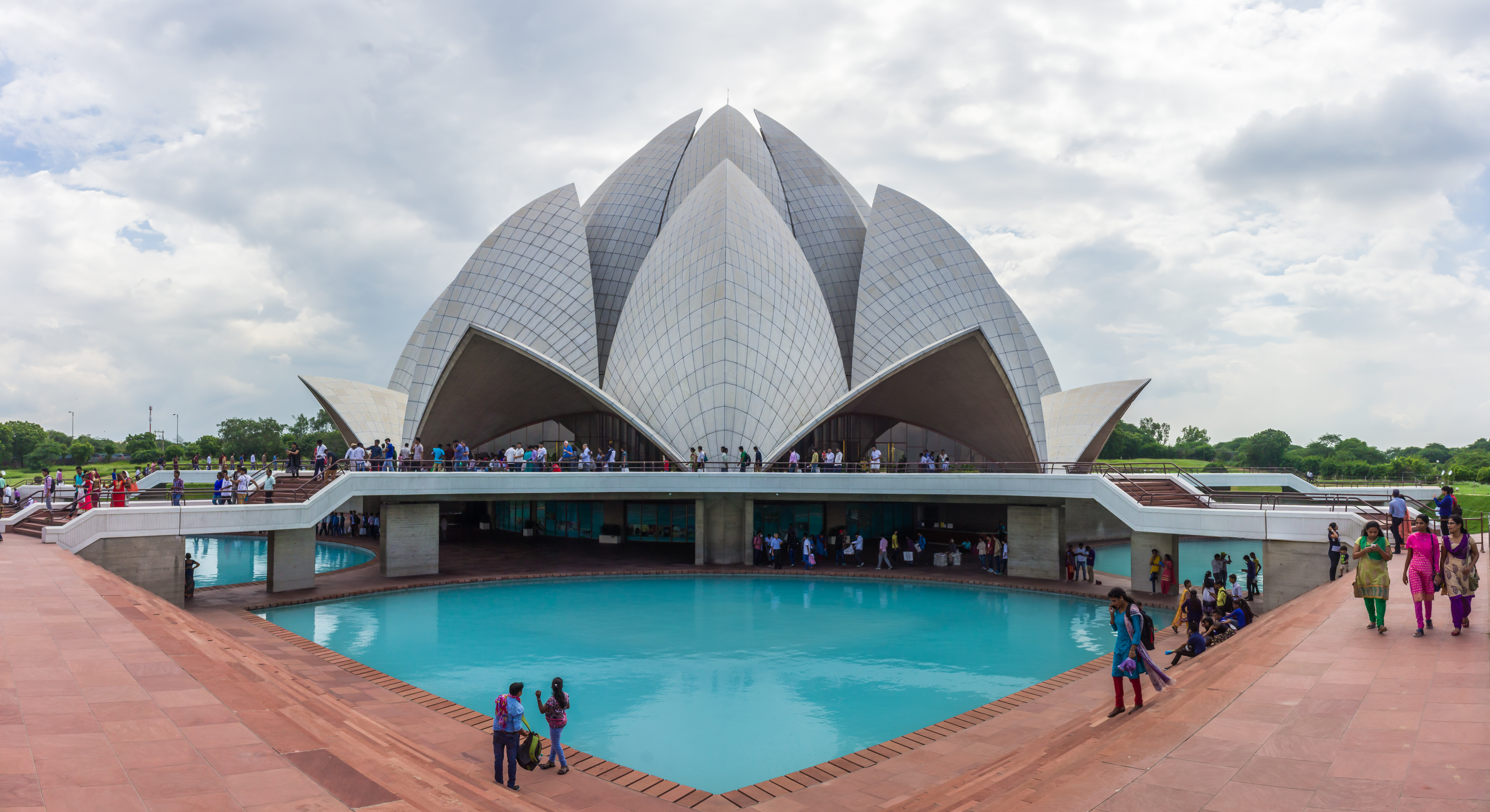 The Lotus Temple, located in New Delhi, India, is a Bahá'í House of Worship completed in 1986. NOTE: This image is a panorama consisting of multiple frames that were merged or stitched in software. As a result, this image necessarily underwent some form of digital manipulation. These manipulations may include blending, blurring, cloning, and colour and perspective adjustments. As a result of these adjustments, the image content may be slightly different from reality at the points where multiple images were combined. This manipulation is often required due to lens, perspective, and parallax distortions.